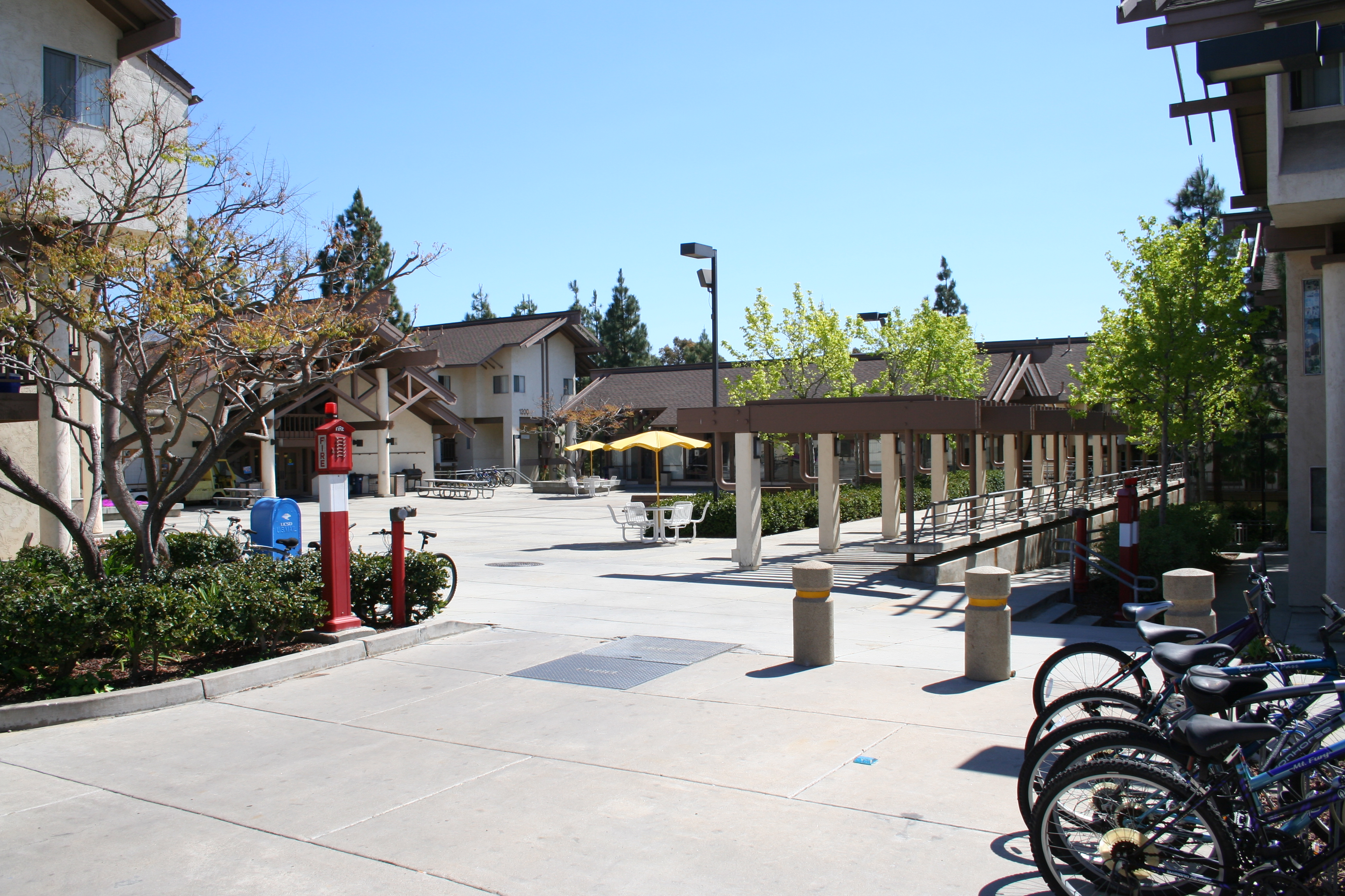 On-campus apartments at UCSD's Sixth College in Spring 2007.